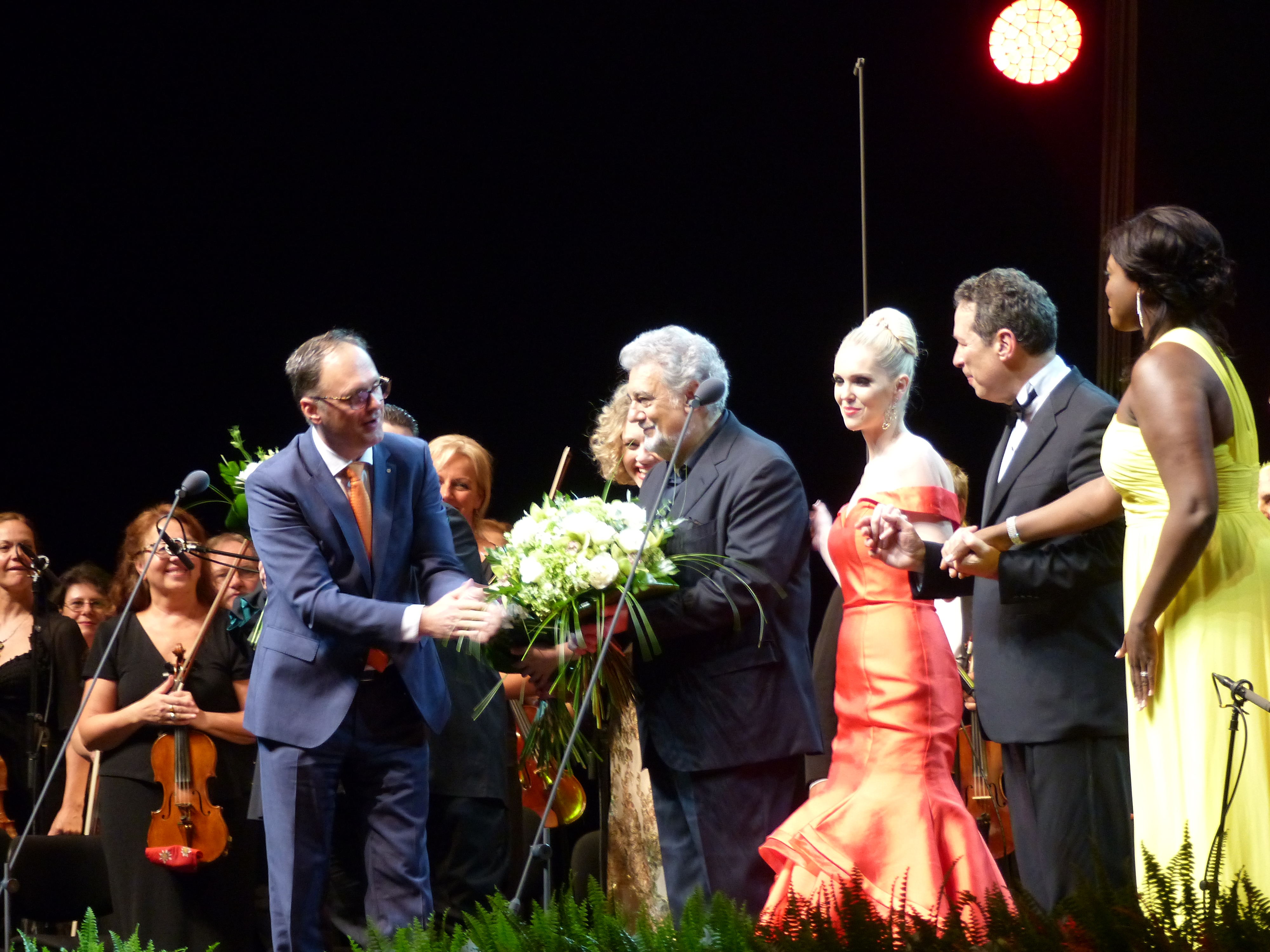 Plácido Domingo, Pasztircsák Polina, Angel Blue, Váradi Gyula, Micaëla Oeste, Eugene Kohn, . Taken on the 10th of August, 2016. Papp László Budapest Aréna, Budapest. Venue in hu.